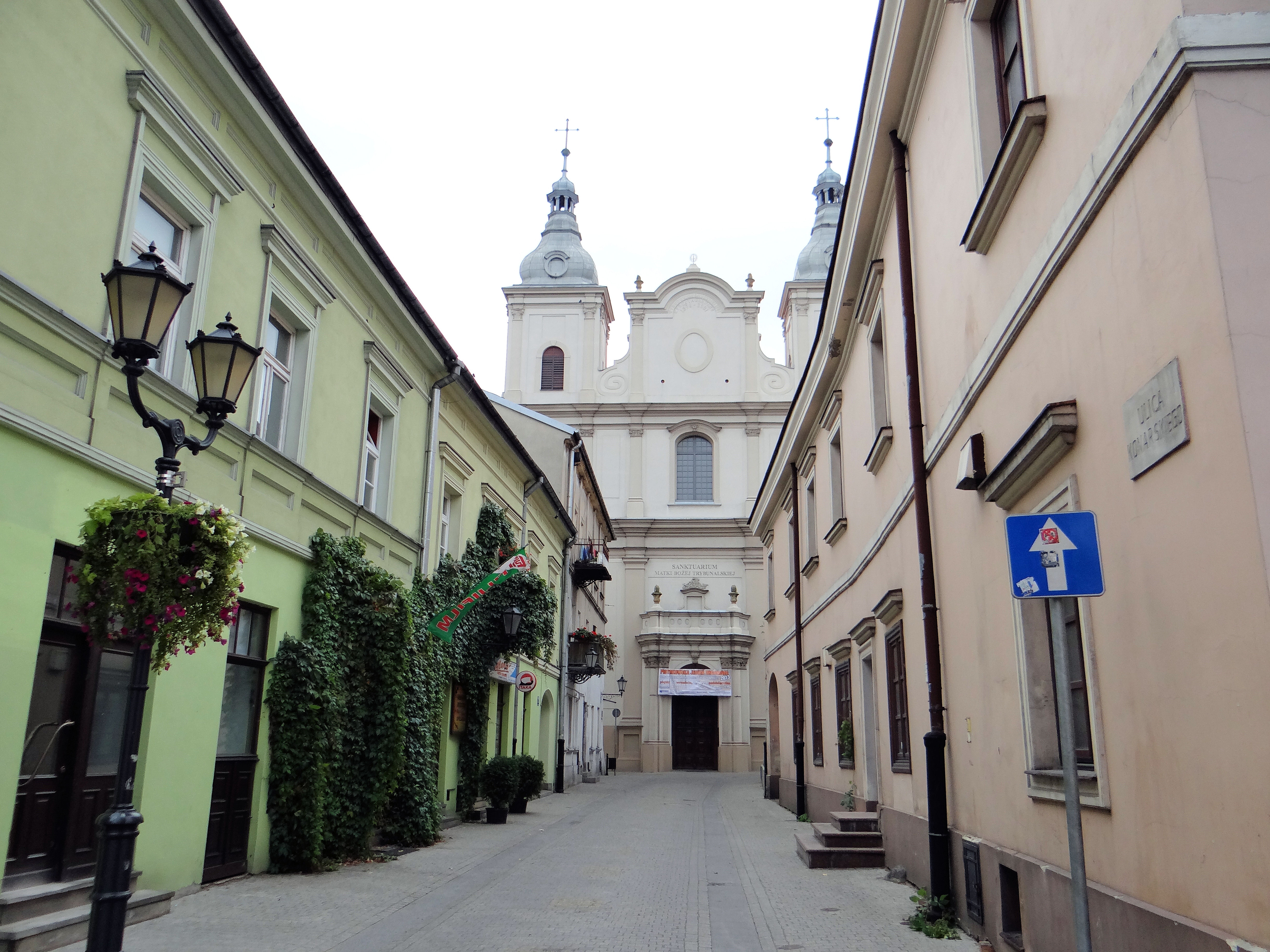 Jesuit Church in Piotrków Trybunalski